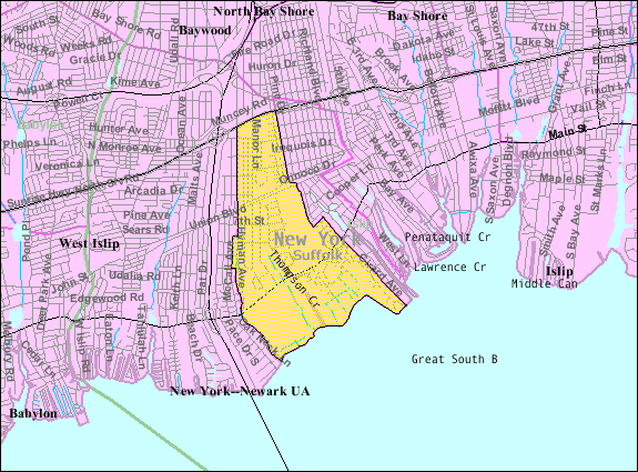 U.S. Census 2000 reference map for West Bay Shore